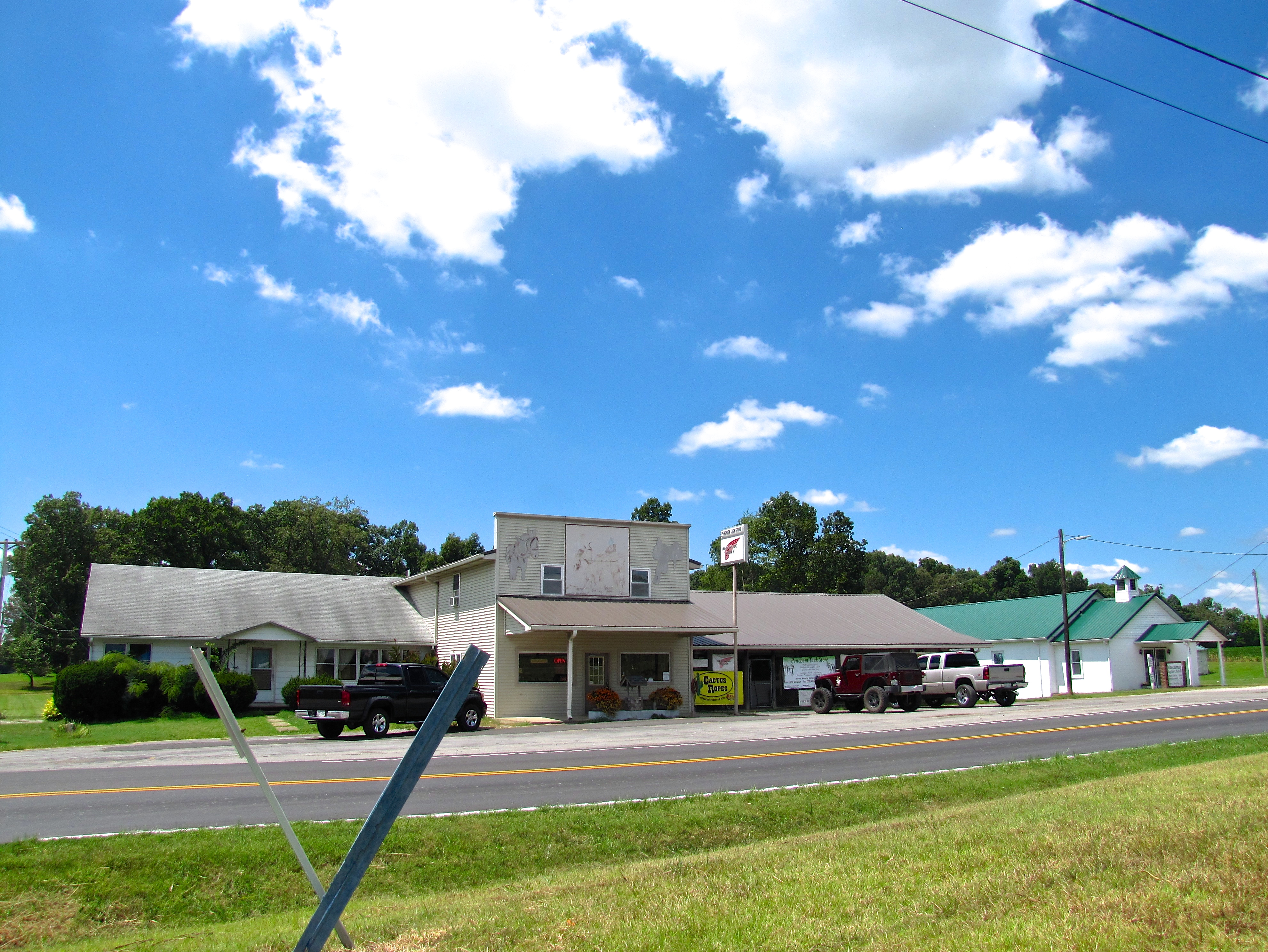 Buildings along Kentucky Route 181 in Penchem, Kentucky, United States.